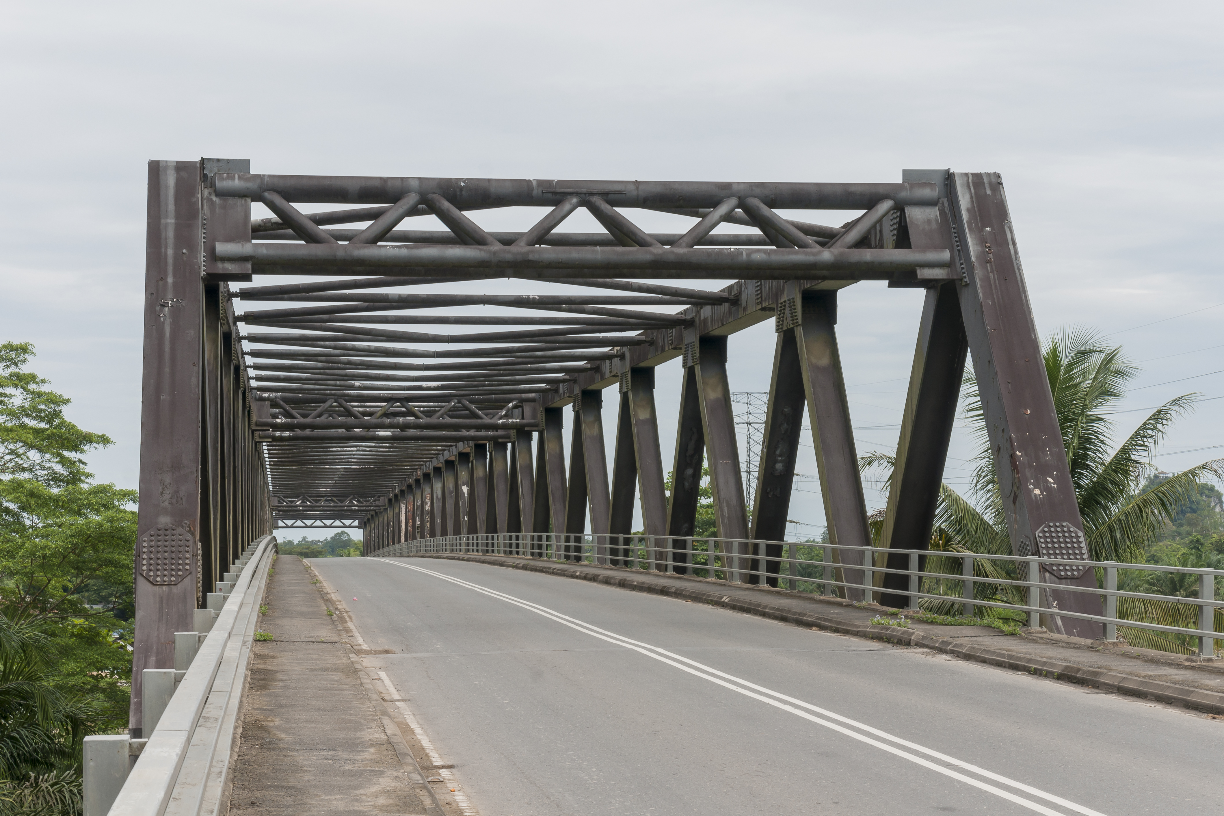 Kinabatangan, Sabah: Bridge over the Sungai Kinabatangan near Kg. Batu Putih